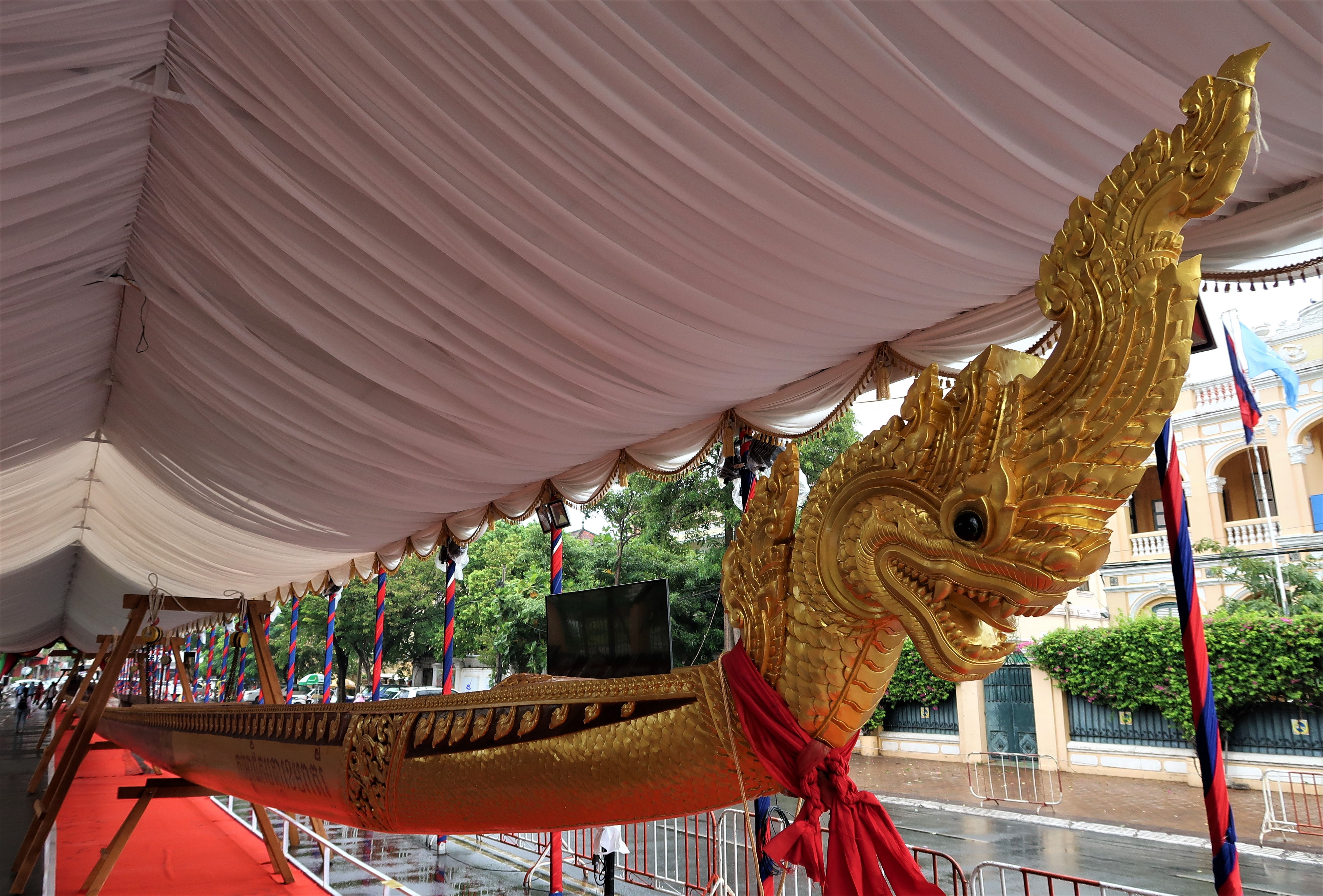 Kambojika Putta Khemara Tarei (meaning in Khmer: Dragon Boat of Khmer Youth in Cambodian Territory) is the longest Dragon Boat in the world with an overall length of 87.3 meters.